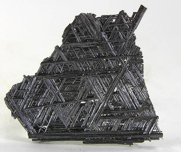 Rutile, variety Sagenite Locality: Diamantina, Jequitinhonha valley, Minas Gerais, Southeast Region, Brazil (Locality at ) Size: 3.4 x 2.9 x 0.2 cm. These reticulated rutiles are like nothing else in the mineral kingdom, with their geometric crosshatched crystal form. Rutile of course takes on all sorts of forms, from the chunky crystals from Graves Mountain to the golden, needle-like crystals from Novo Horizonte you see associated with hematite or sometimes even inside of quartz crystals. This form has to be the most interesting of all, however.